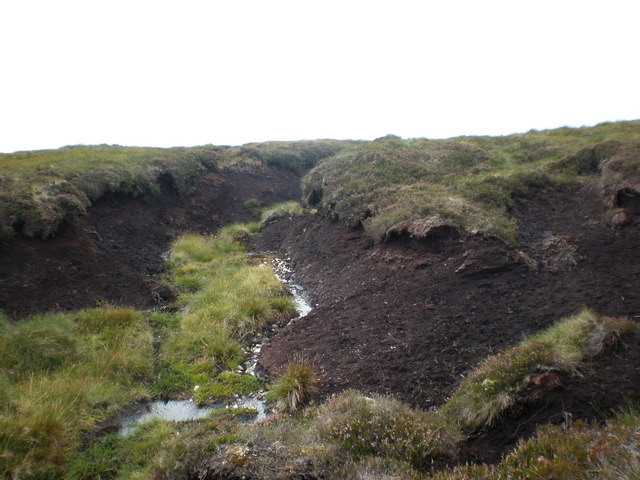 Peat haggs at start of Allt Lagan a' Bhainne tributary on Eilrig I disturbed a very big dog Fox in peat haggs, don't usually see them this early in the day 4:00pm